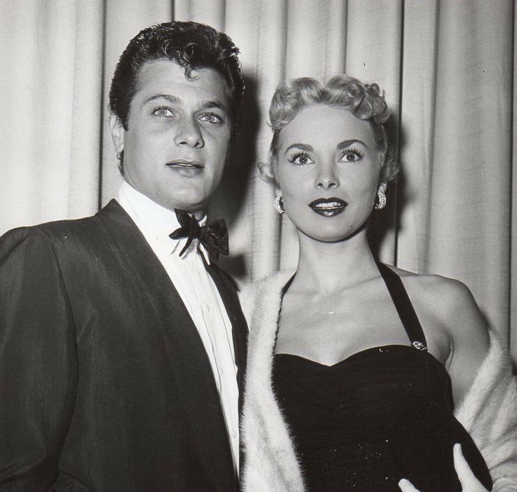 Tony Curtis and Janet Leigh at 25th Annual Academy Awards